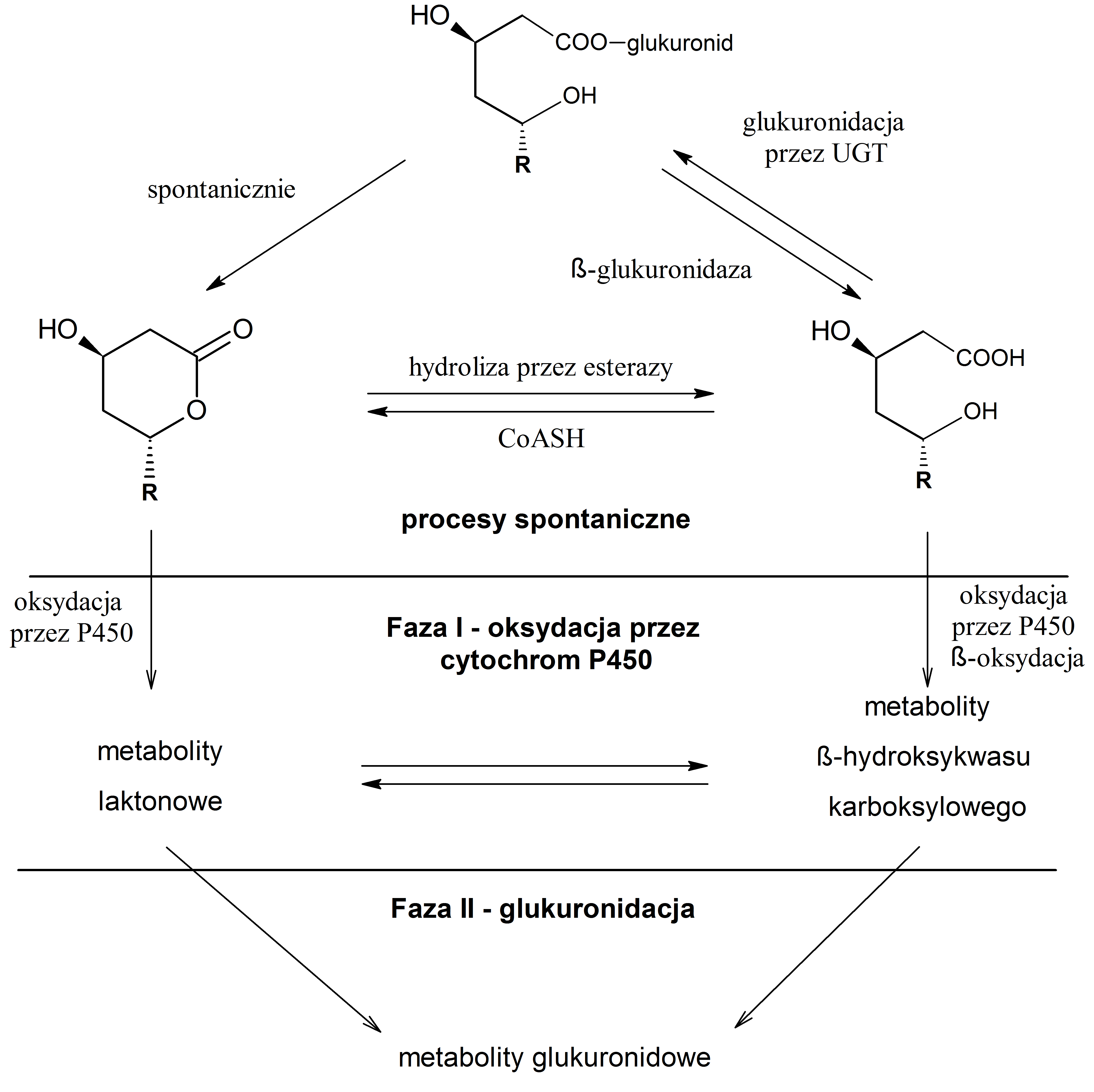 Proposed metabolic pathway of a typical statin (M. Hu, V.W.L. Mak, T.T.W. Chu, M.M.Y. Waye, B. Tomlinson Pharmacogenetics of HMG-CoA Reductase Inhibitors: Optimizing the Prevention of Coronary Heart Disease Current Pharmacogenomics and Personalized Medicine, 2009, 7, 1-26 page 4)